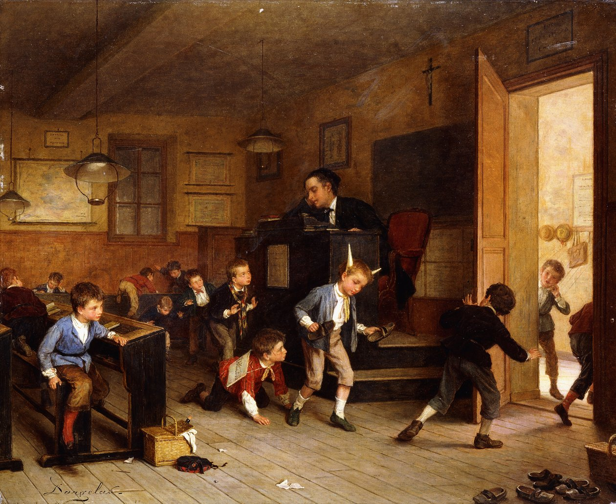 Dargelas: The sleeping teacher